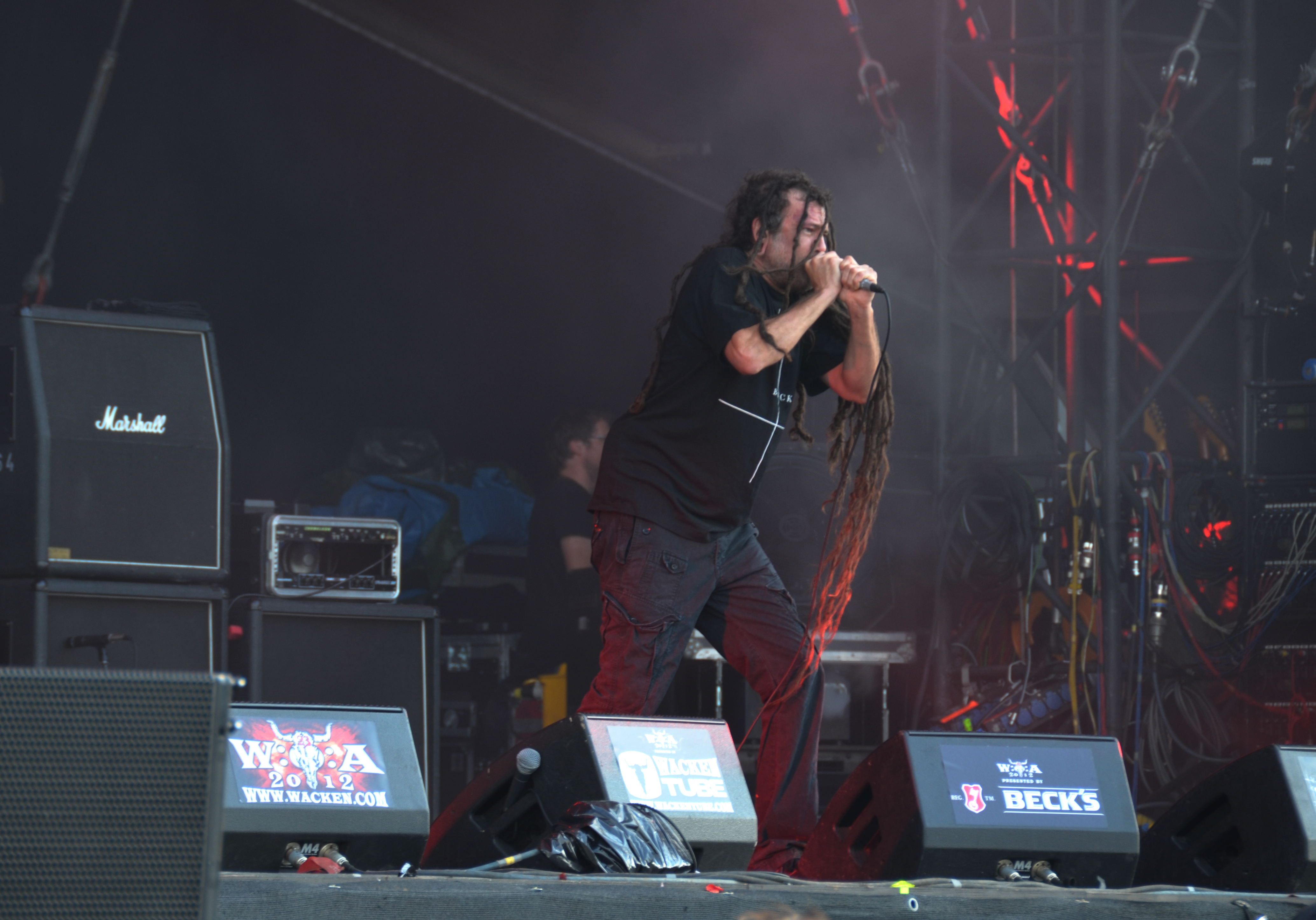 Six Feet Under at Wacken Open Air 2012; Chris Barnes